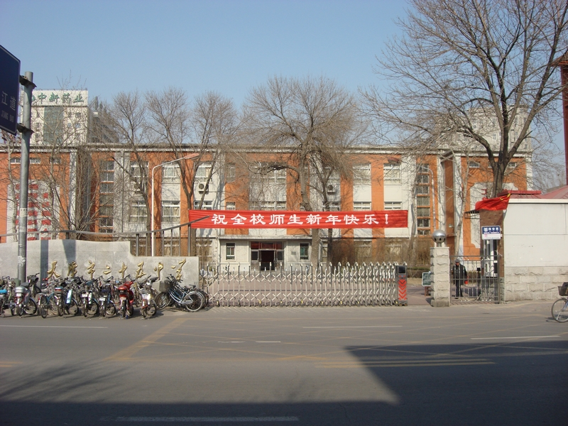 Tianjin 25TH Middle School